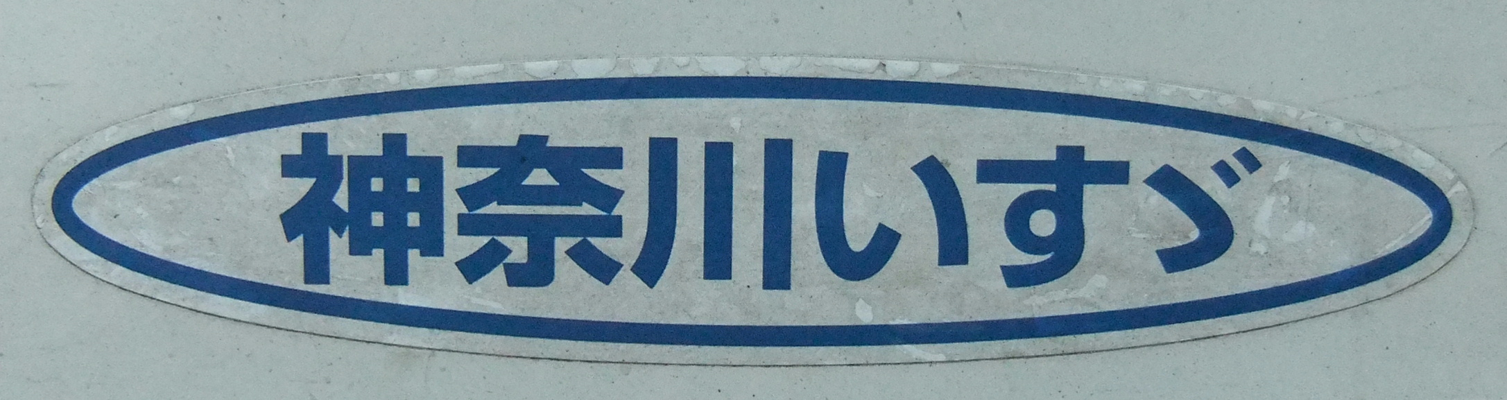 KANAGAWA ISUZU MOTORS Ltd.(Japan) , Decal